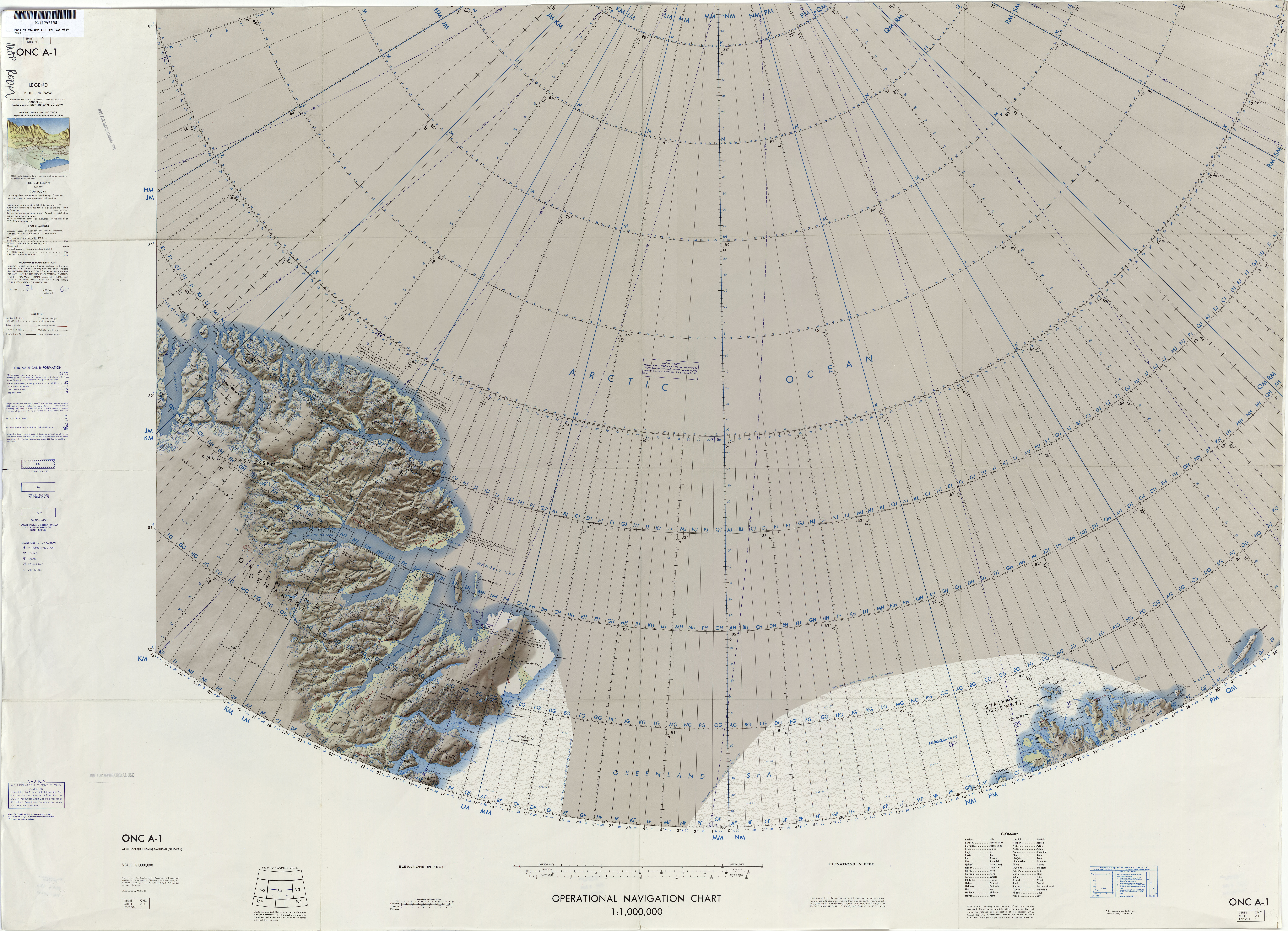 1:1,000,000 scale Operational Navigation Chart, Sheet A-1, 1st edition. Covers Greenland (Denmark) and Svalbard (Norway). Polar Stereographic Projection. Central longitude 0 47 30W.